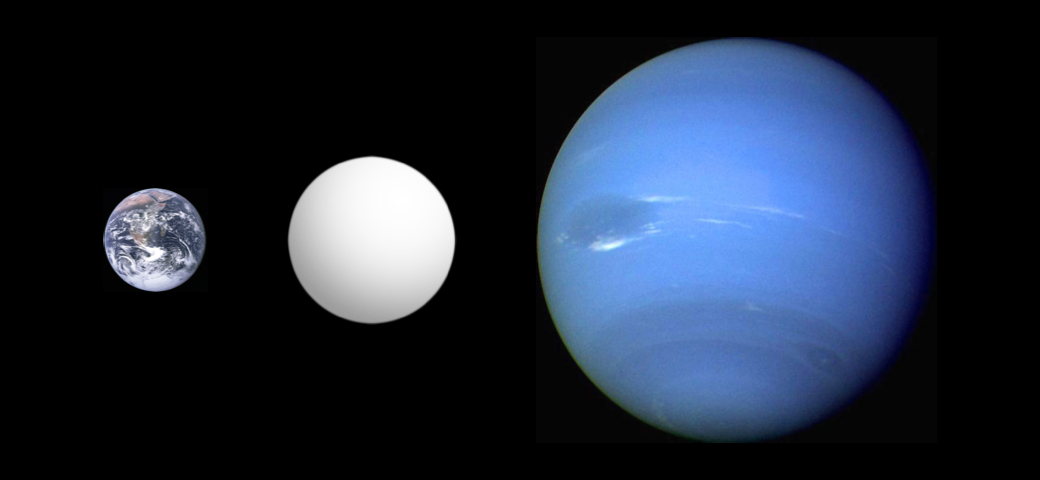 Comparison of best-fit size of the exoplanet CoRoT-7 b with the Solar System planets Earth and Neptune, as reported in the Extrasolar Planets Encyclopaedia[1] as of 2010-10-03. A version of this image accompanied an article[2] on Super-Earths in the 2011-10-08 issue of Science News. ↑ Extrasolar Planets Encyclopaedia (2010-09-30). Retrieved on 2010-10-03. ↑ Drake, Nadia (2011-100-08). "Super-Earths—dense of fluffy". Science News 180 (8): 8. Retrieved on 2011-10-11.